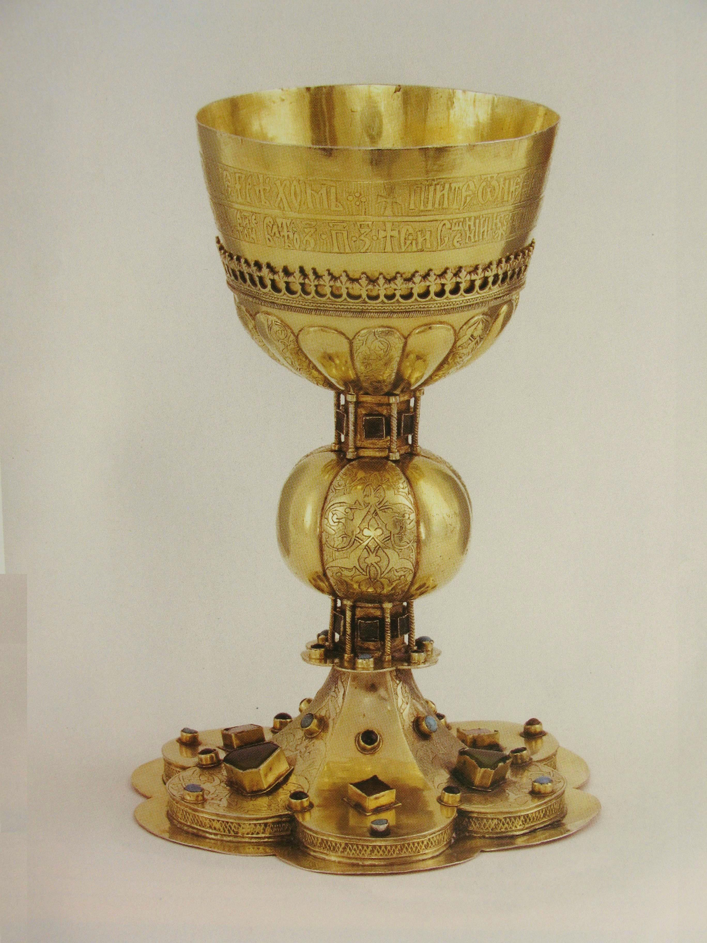 Holy Trinity monastery Pljevlja, Chalice of abbot Stephen,XVII century